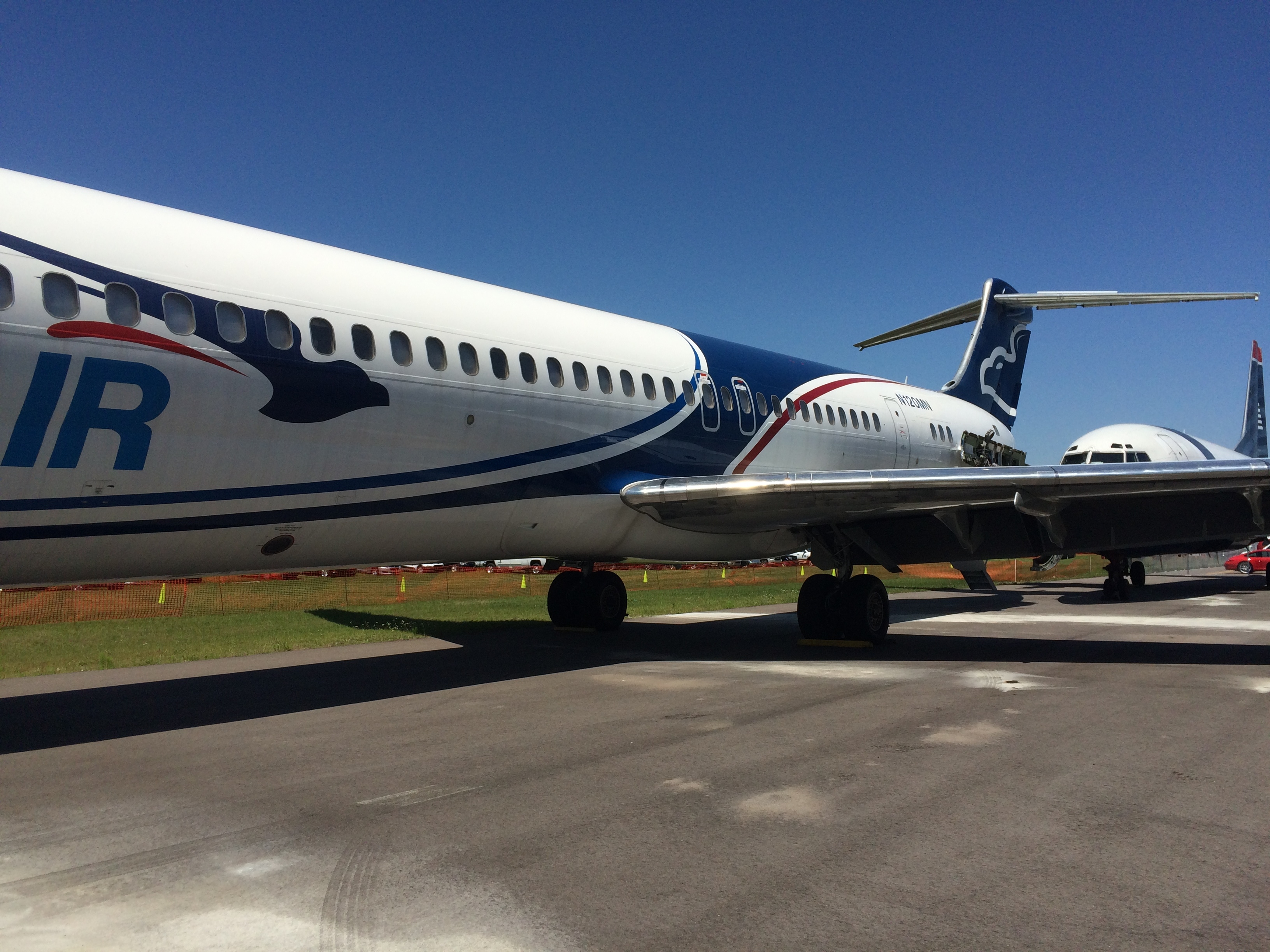 A Falcon Air Express MD-83 at the Lakeland Linder Regional Airport